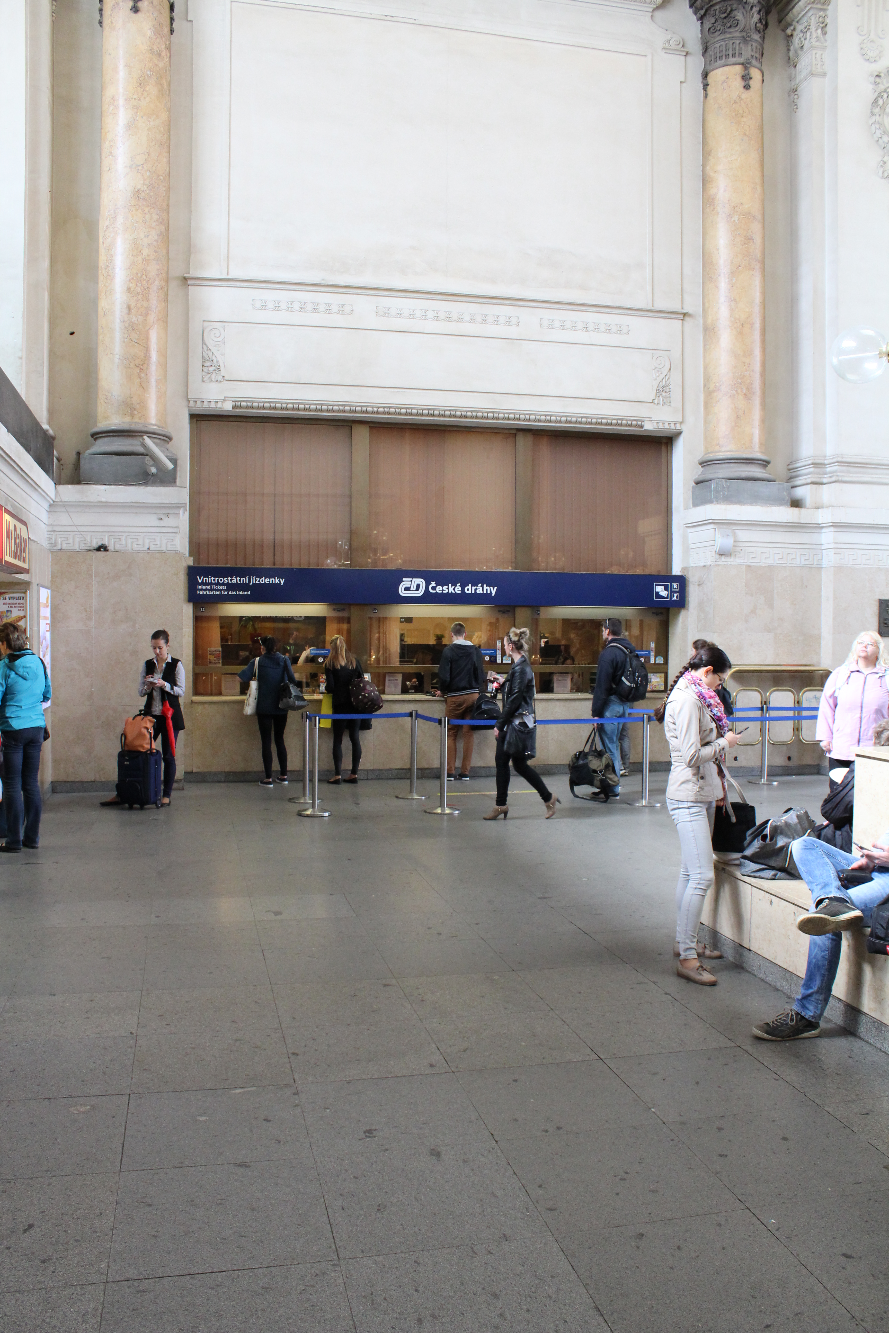 Brno central station - main hall